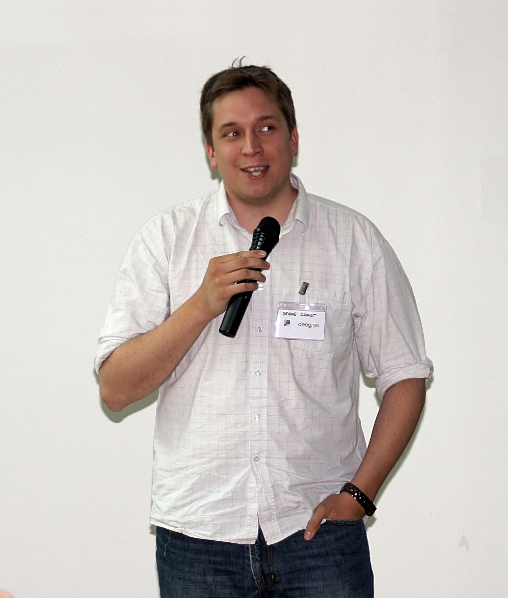 Steve Coast, Founder of OpenStreetMap, on the conference "OSM im Rheinland", Bonn, Germany